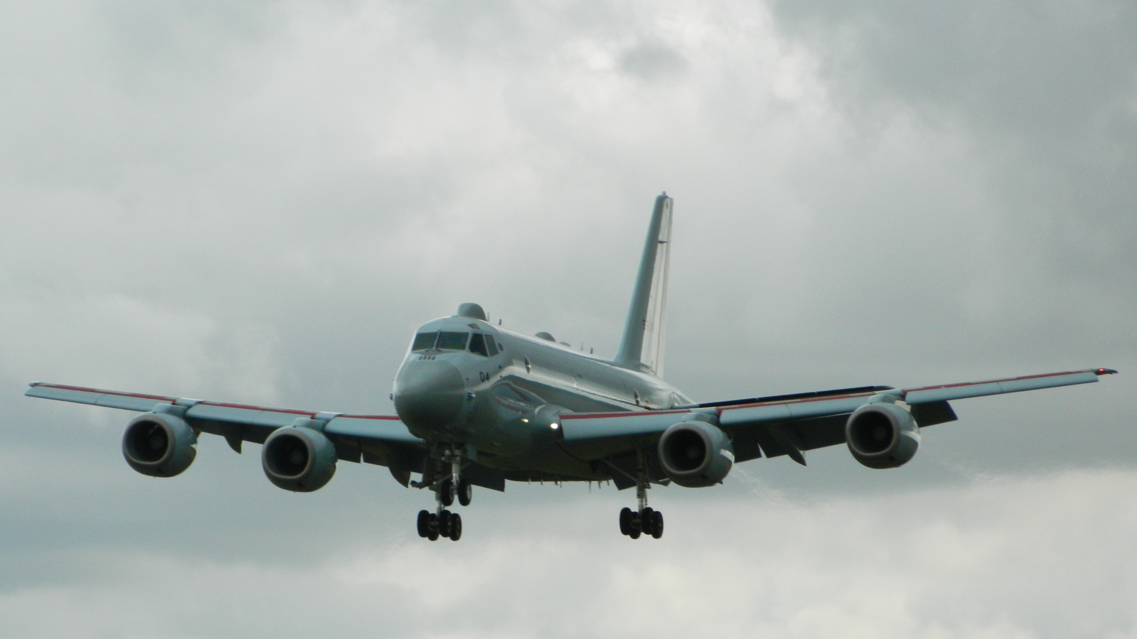 "5504" a Kawasaki P-1 of the Japanese Martiime Self Defense Force landing at Royal Air Force Fairford during the Royal International Air Tattoo on 17 July 2015